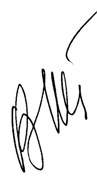 Signature of the Russian poet Vladimir Turiyansky. Scanned from a book that he signed at the concert in Novosibirsk on 1997-11-29